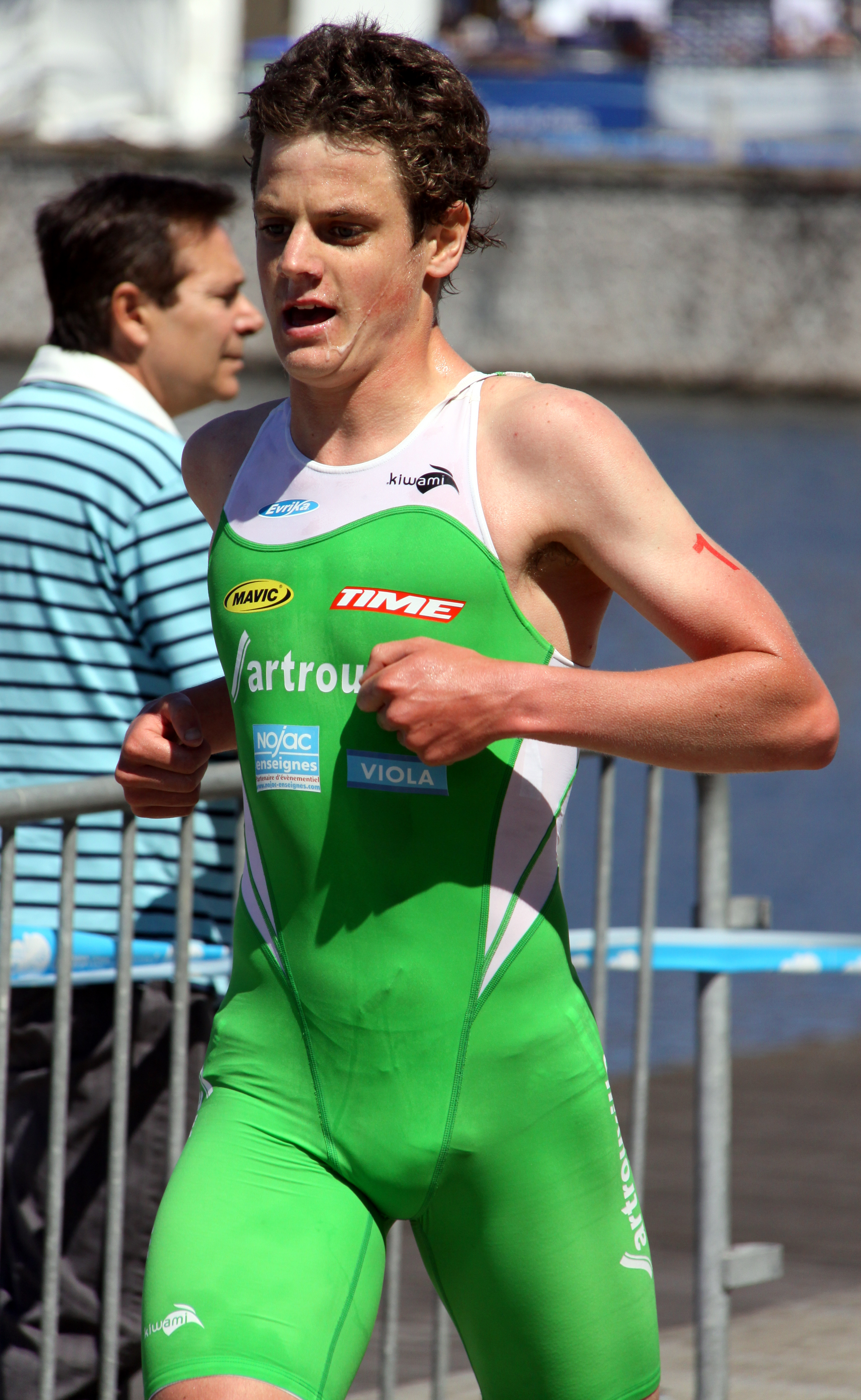 Jonathan Brownlee winning the Triathlon de Dunkerque 2010 (Grand Prix de Triathlon Lyonnaise des Eaux)